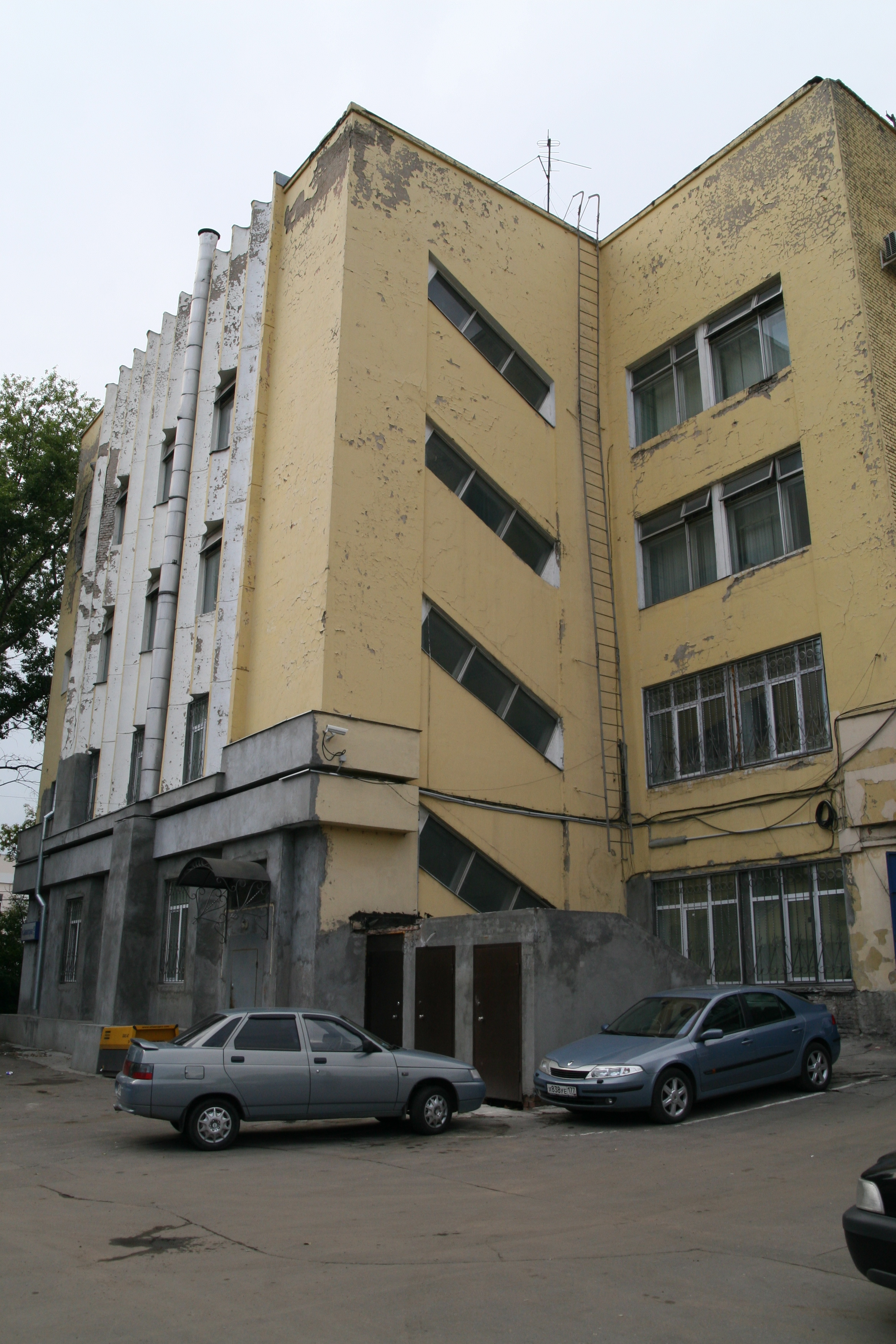 Gosplan grage by Melnikov